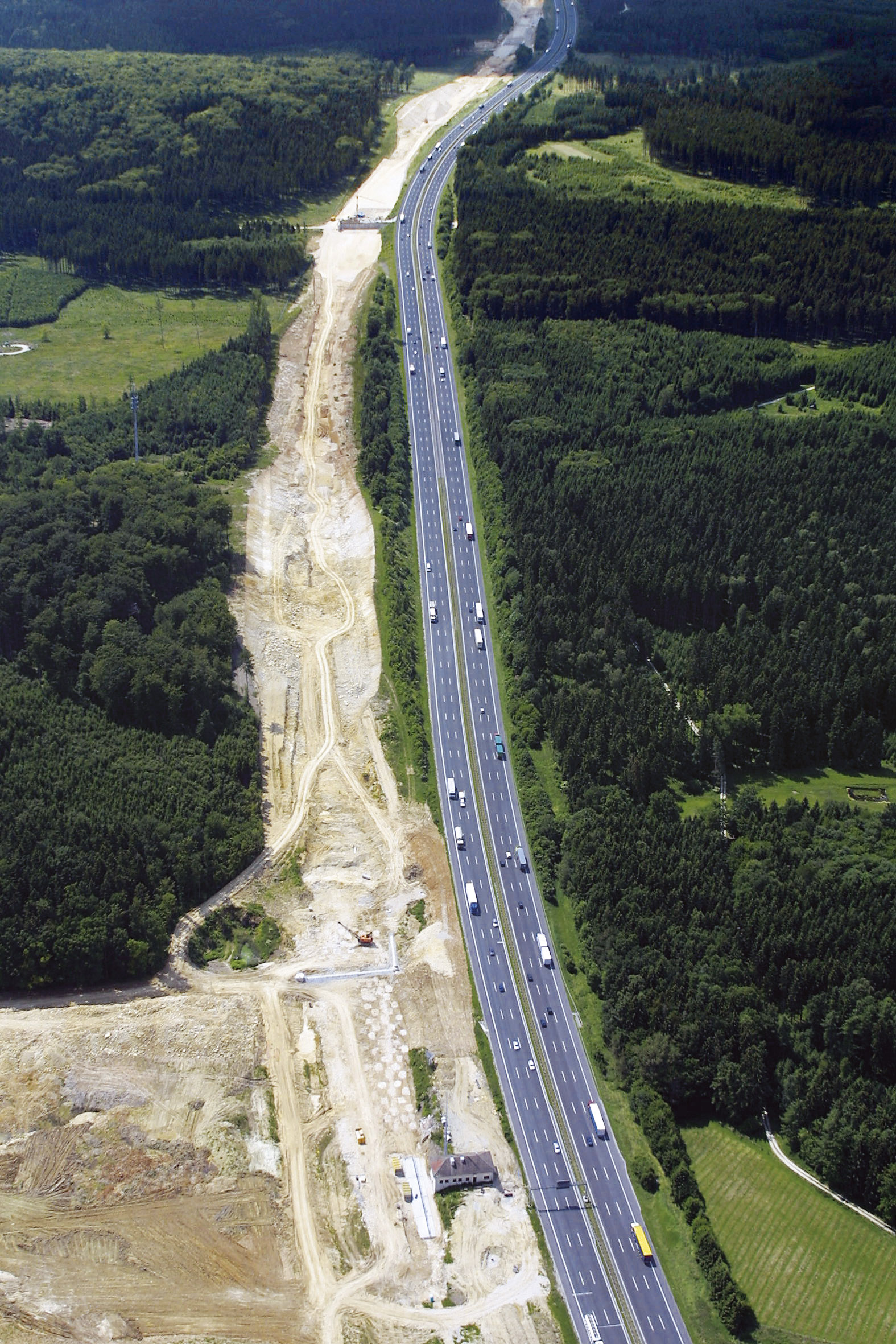 The Nuremberg-Ingolstadt high-speed railway line under construction in 2001. The crossing of the Kösching forest is considered one of the most severe impacts on nature in the course of the line's construction. On the right, the Autobahn 9 can be seen. The view is southwards, towards Ingolstadt/Munich.